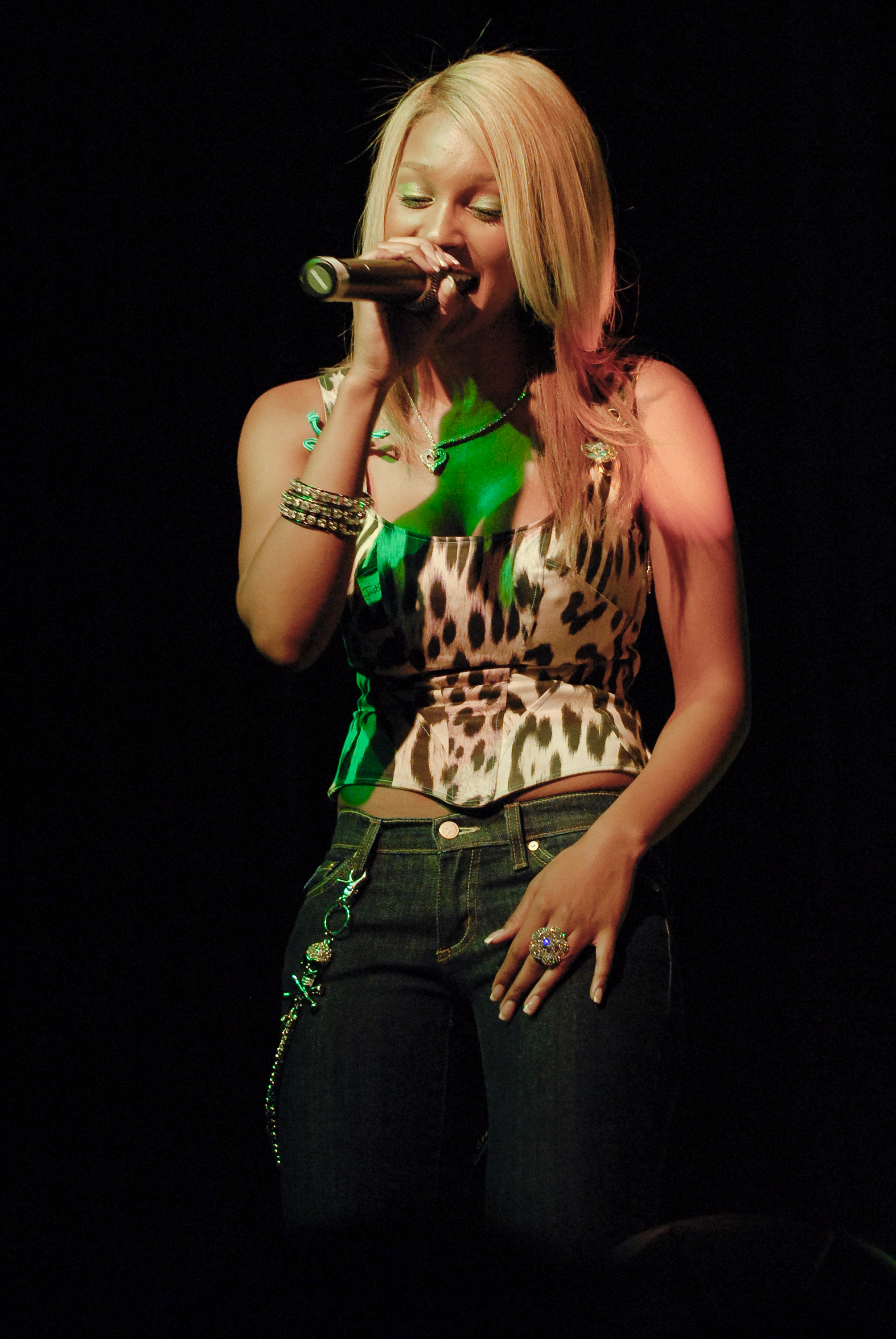 Olivia performing in 2007.LloydBanks_Olivia-21.jpg